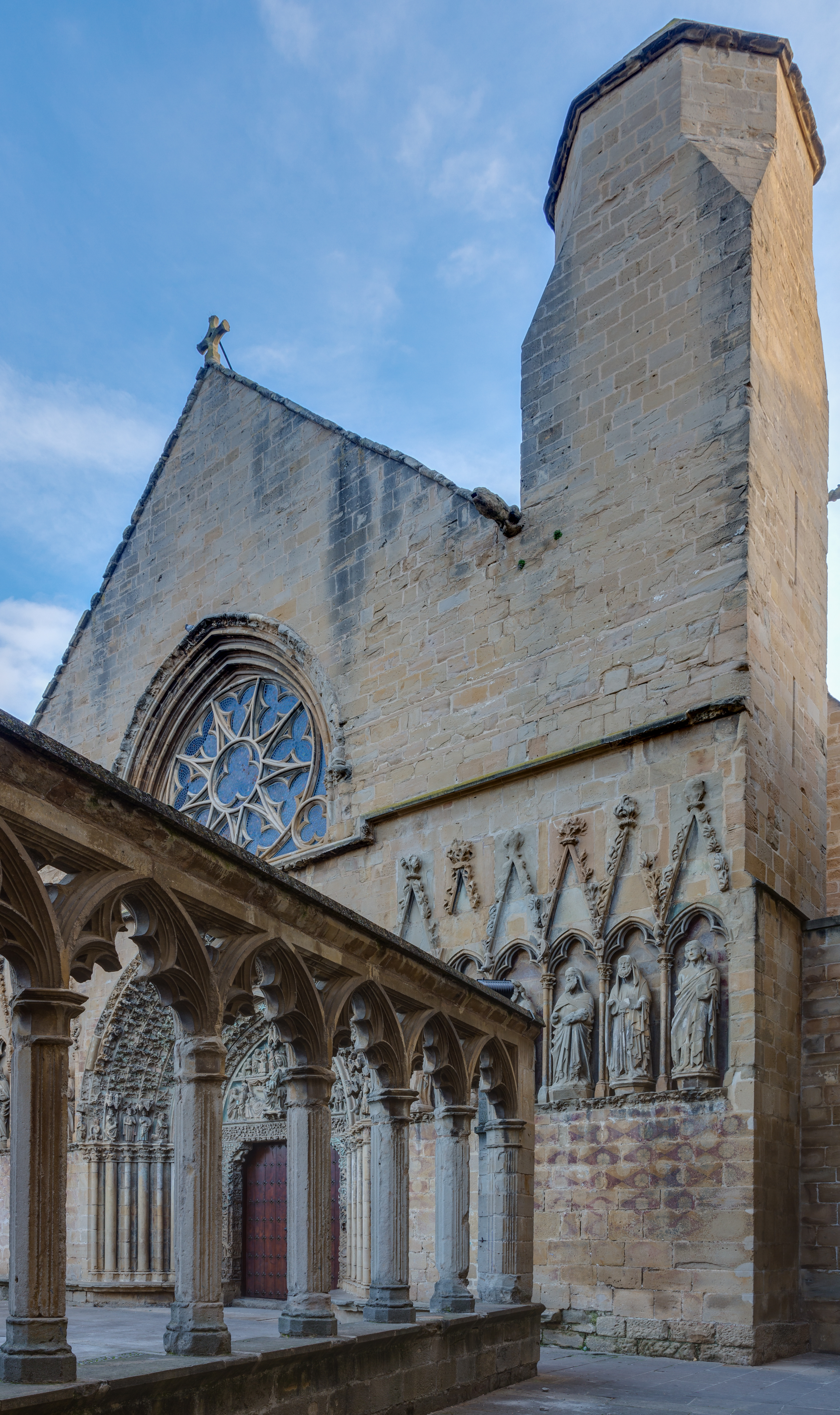 Church of Santa María la Real, Olite, Navarre, Spain